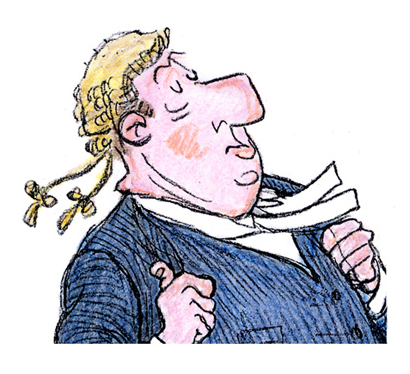 Sir geoffrey Bentwood QC, logo for the Queen's Counsel cartoon strip